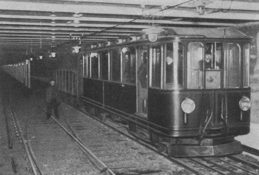 Test drive at Berlin U-Bahn in 1901.